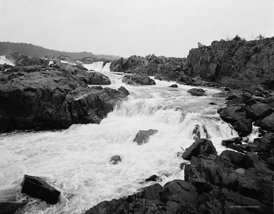 Great Falls of the Potomac River, Montgomery County, Maryland. (Note: Title is incorrect.)